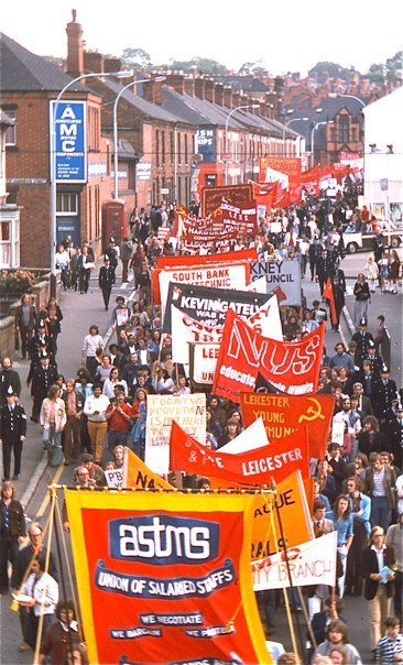 Overall view of march against racialism in Leicester, August 24, 1974. Other information Photo by George Garrigues